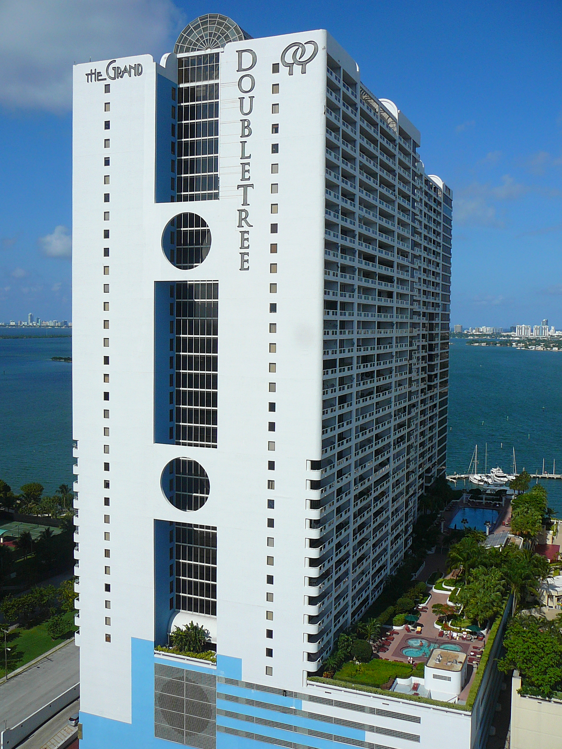 The Doubletree Grand Hotel Biscayne Bay in Downtown Miami from the west